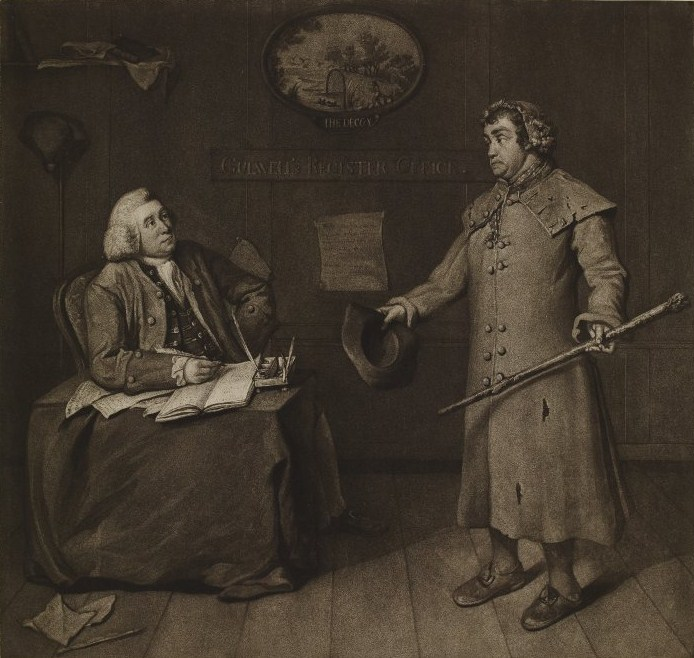 John Moody (left) and John Hayman Packer (right) in the 18th-century farce The Register Office by Joseph Reed.